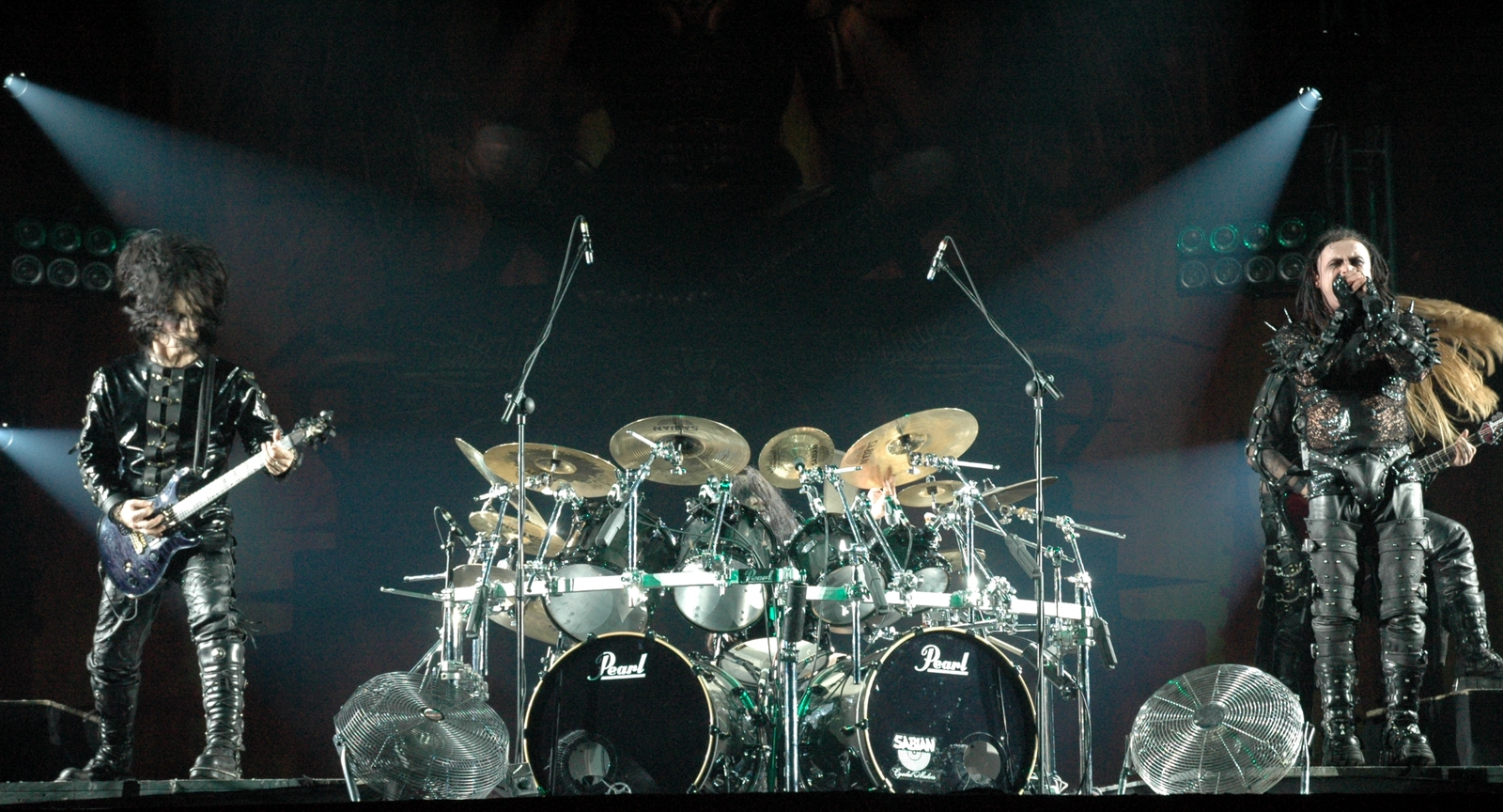 Cradle of Filth band at Metalmania Festival 2005 in Poland